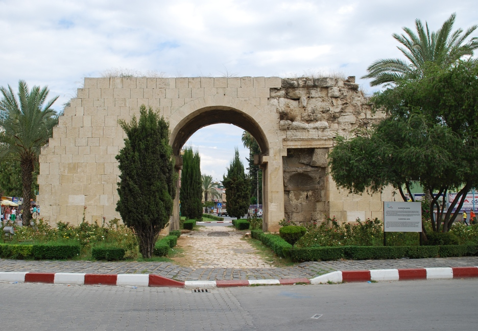 Cleopatras Gate